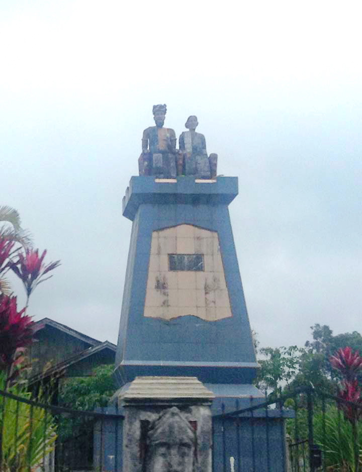 monument of Raja Silitonga in Sipahutar